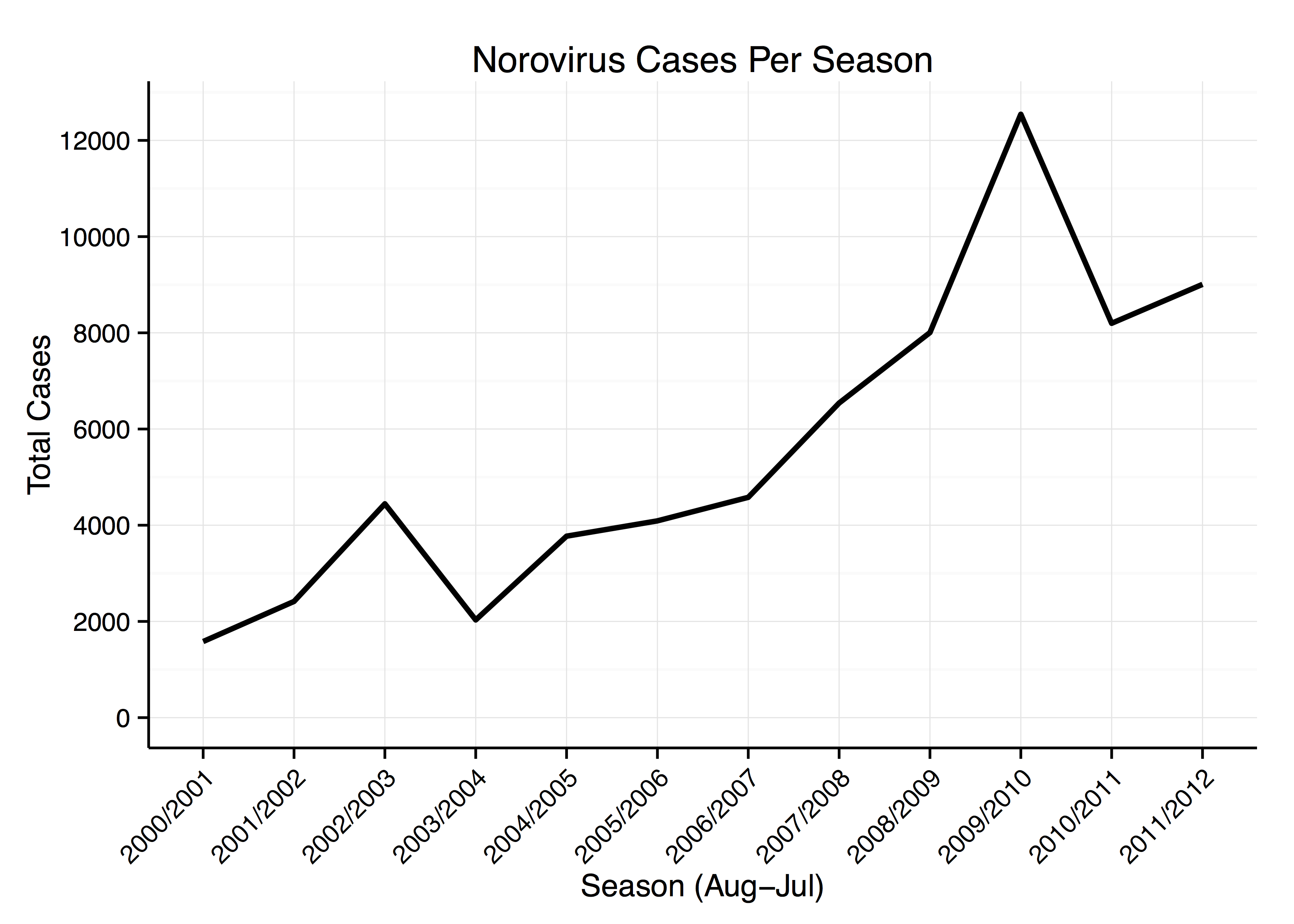 Laboratory reports of norovirus infections in England and Wales 2000-2012 Source Data